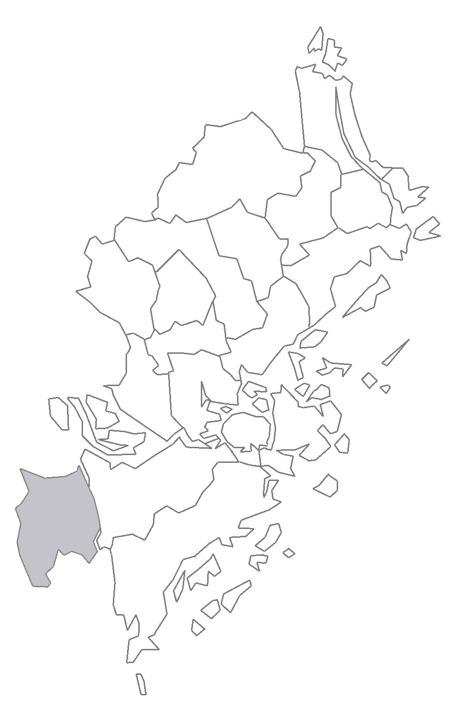 Map describing the location of Öknebo Hundred in Stockholm County, Sweden.